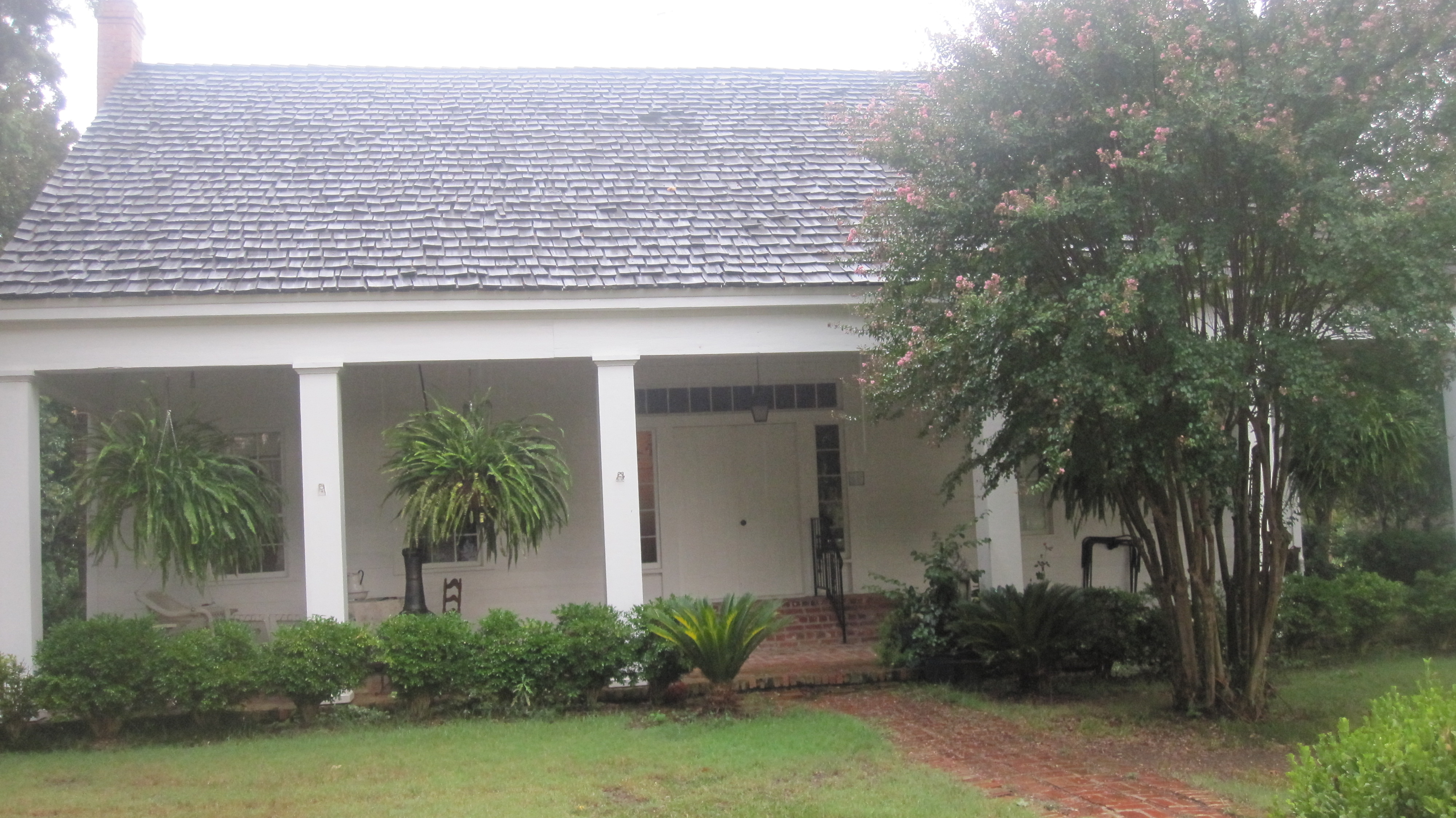 A photo of a building in Louisiana